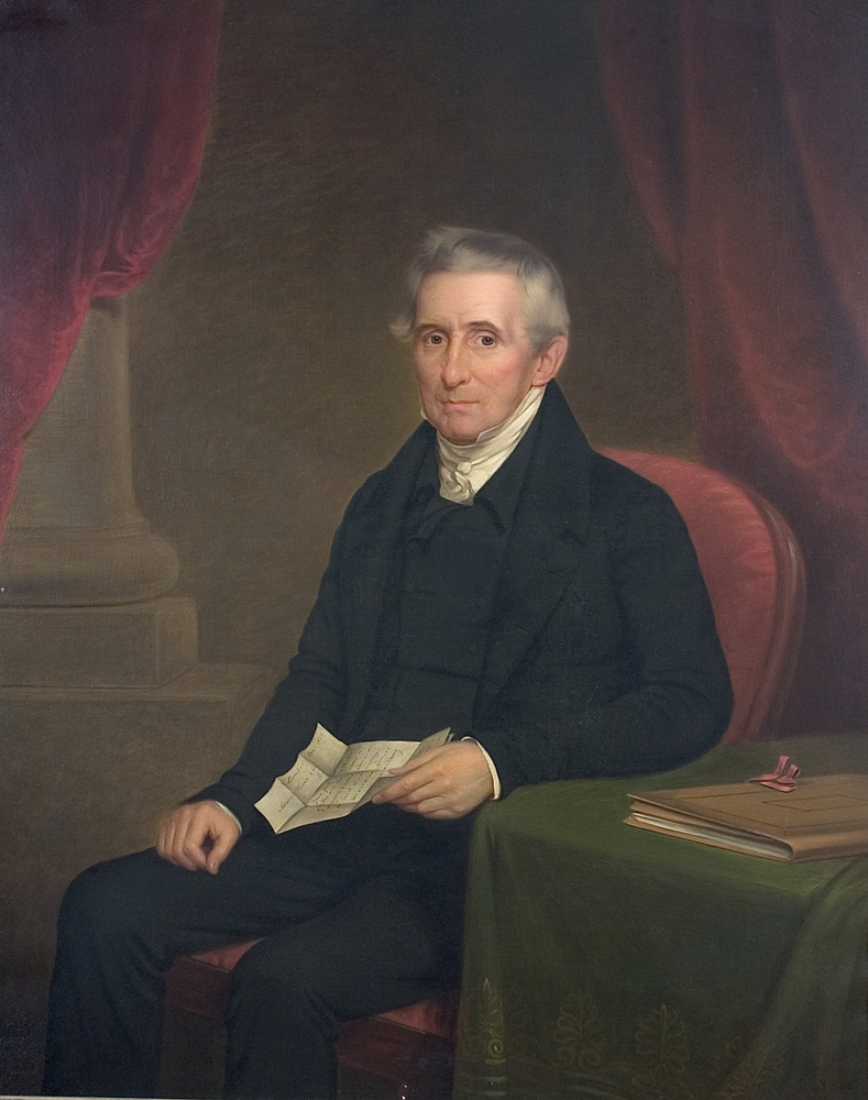 Thomas Poynton Ives (1769-1835) Artist: Lincoln, James Sullivan, after an original by Chester Harding (1811-1888) Portrait Date: 1835 Medium: Oil on canvas